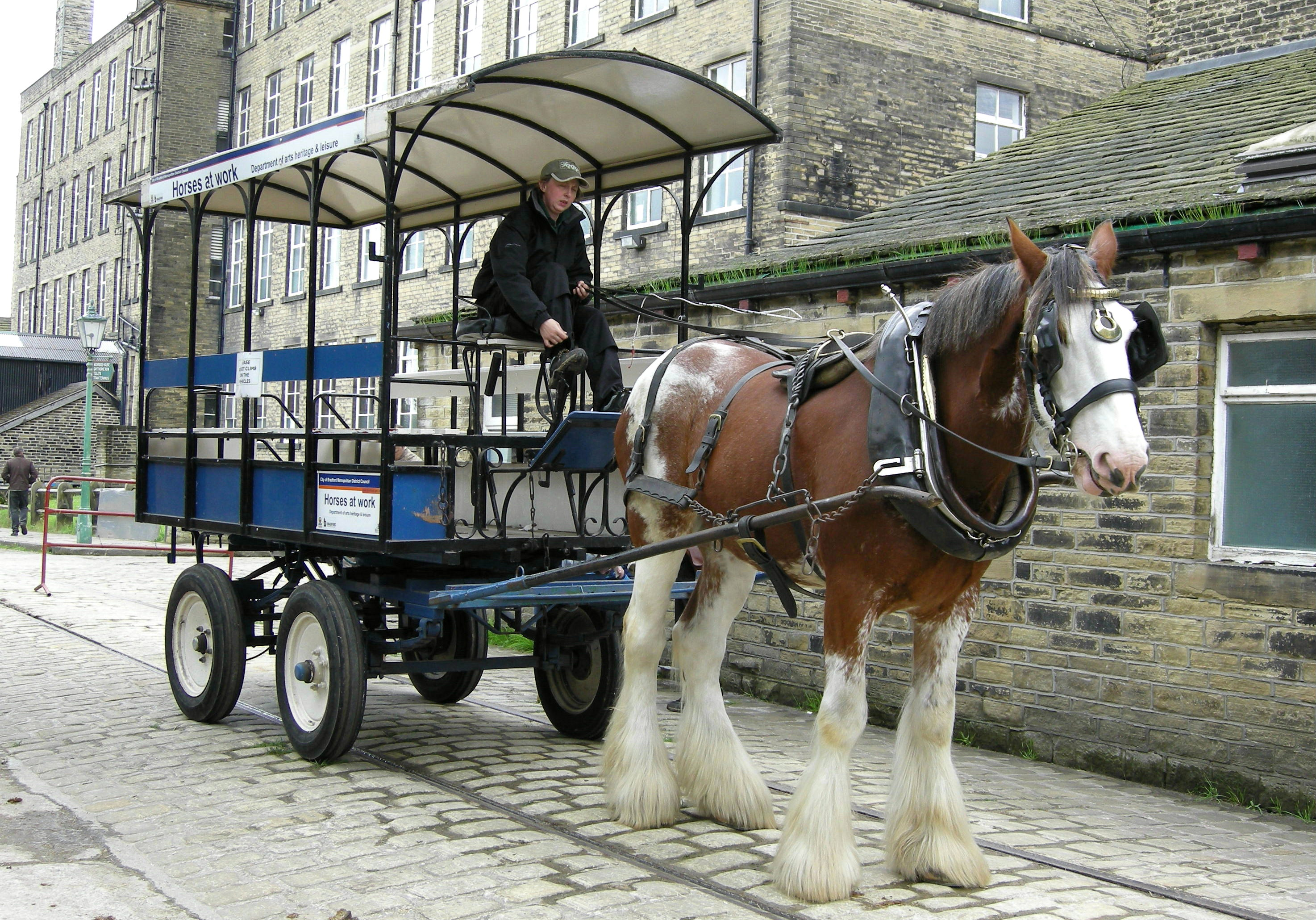 Harnessed dray horse with omnibus cart, at Bradford Industrial Museum, Bradford, West Yorkshire, England.